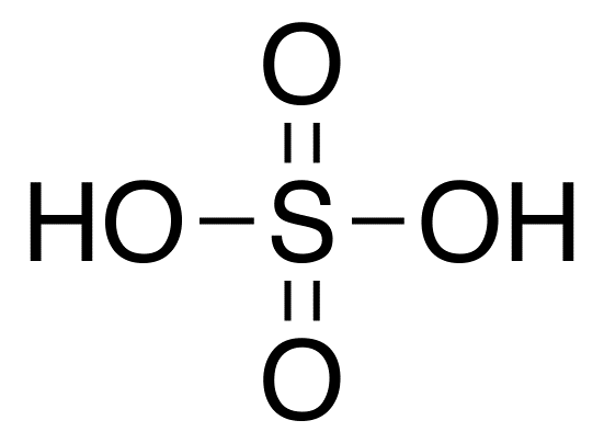 Chemical structure of Sulfuric acid